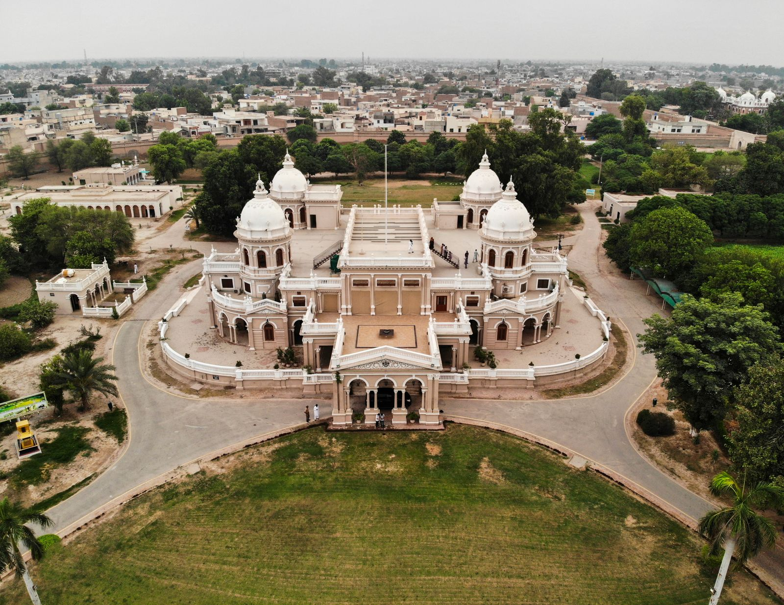 It was built in the time of Nawab Sadiq Muhammad Khan IV. Its beautiful architecture contains European influences just like Noor Mahal. Interestingly the Mahal was the first building in Bahawalpur to be equipped with concealed electric wiring, and the system operated using a diesel generator. The Mahal presents beautiful synthesis of traditional and Islamic architecture and it is worth paying a visit.